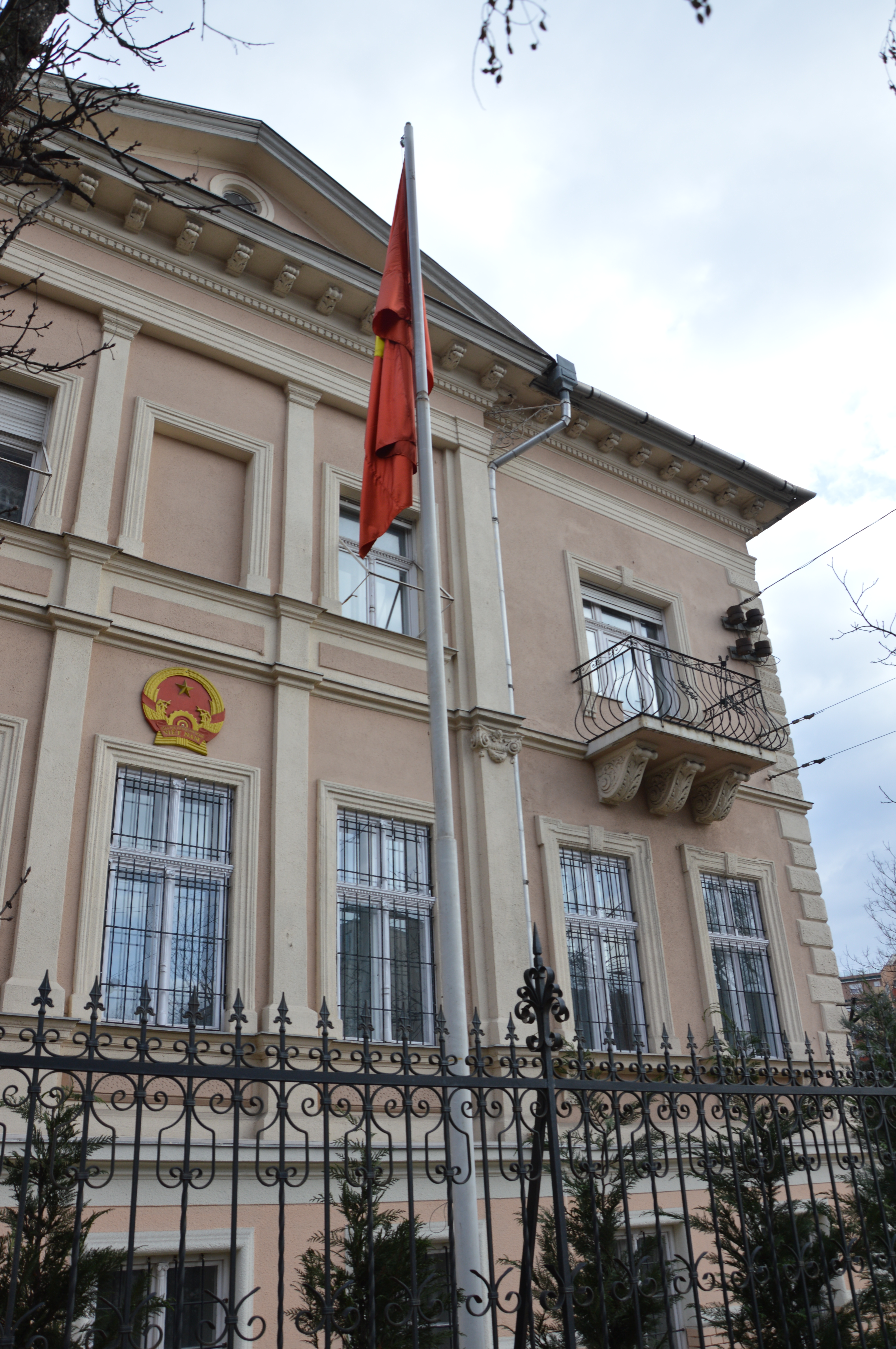 Embassy of Vietnam at Thököly út 41, Budapest District 14, Hungary.